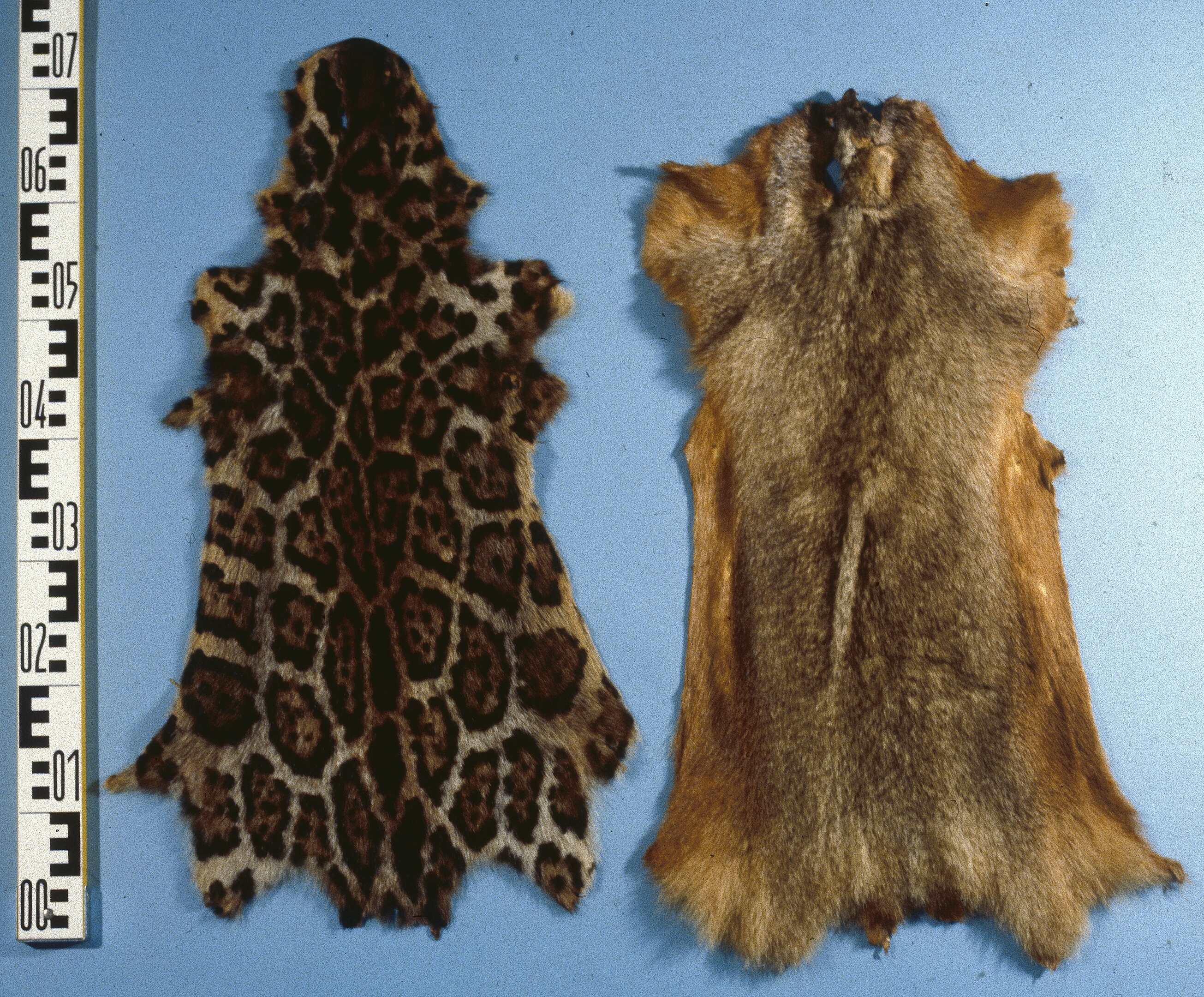 Bobac marmot (Marmota bobak), left skin stenciled. Fur skin collection, Bundes-Pelzfachschule, Frankfurt/Main, Germany